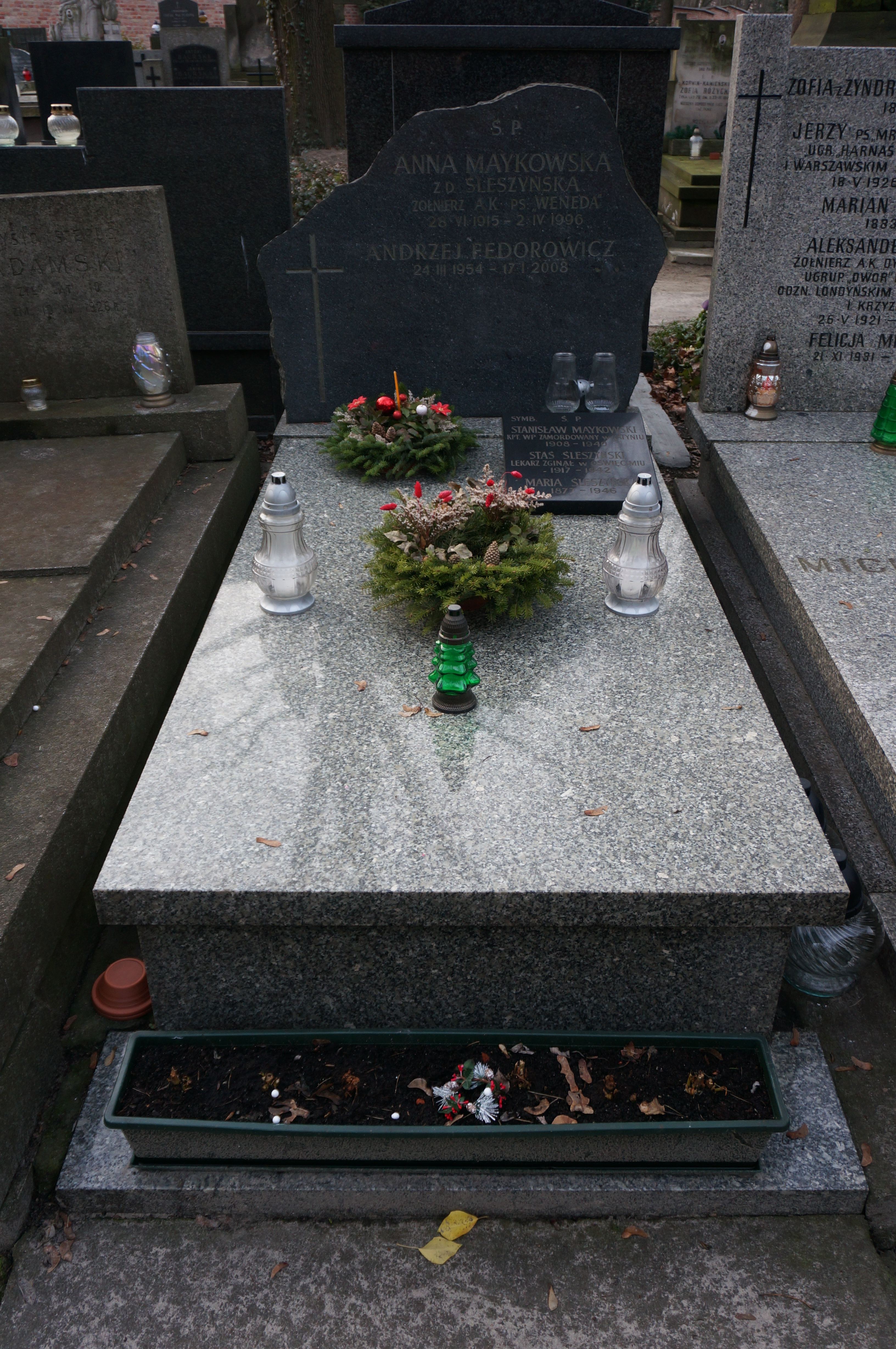 The grave of Andrzej Fedorowicz at the Powązki Cemetery (section 347, row 5, grave 6)